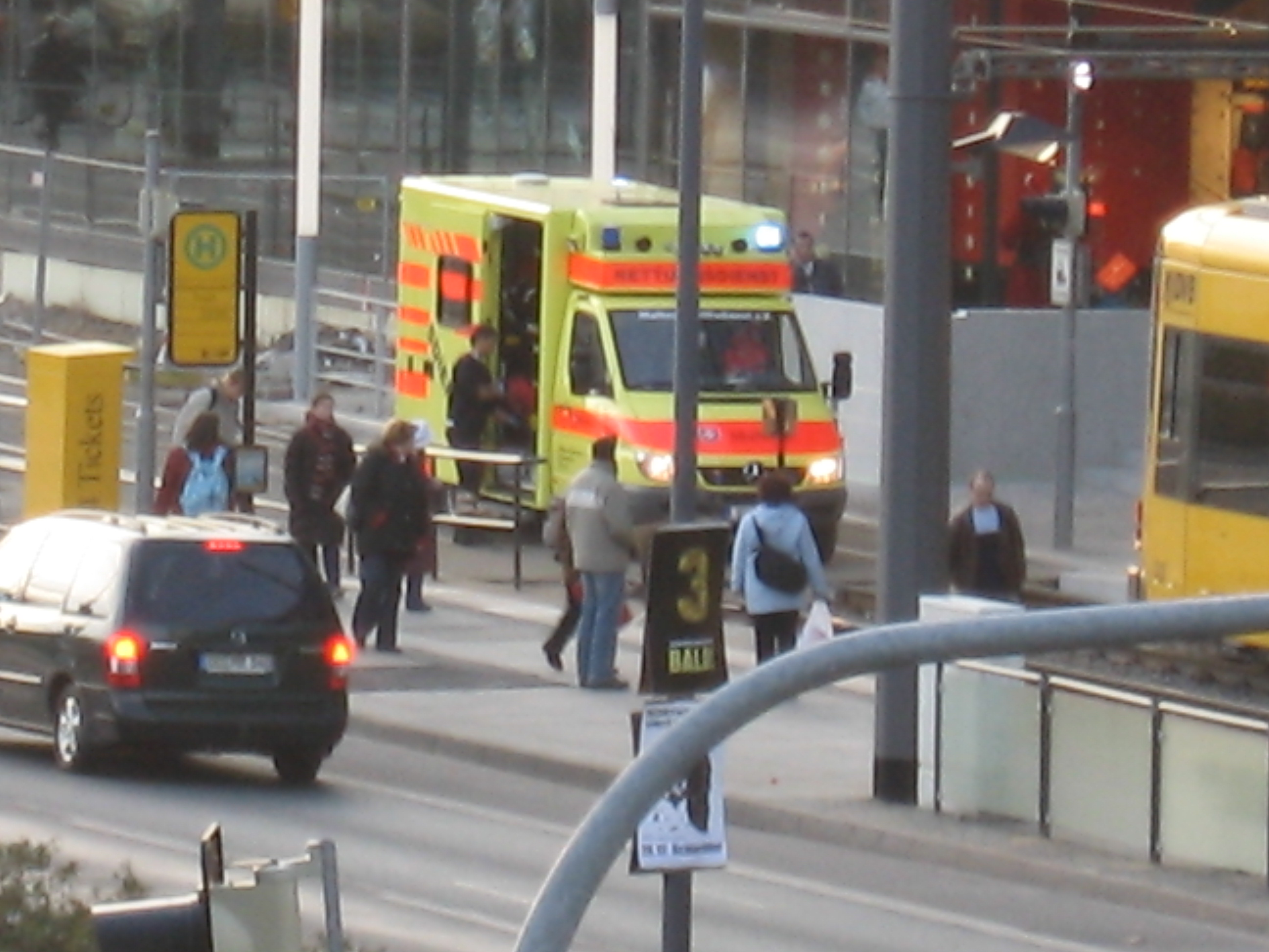 Rescue action in Dresden by a traffic accident